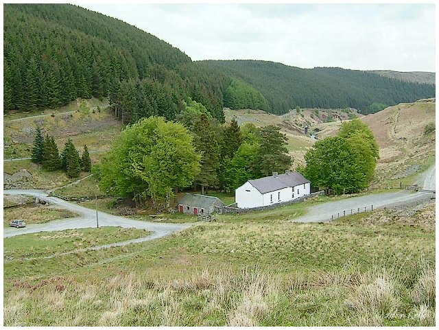 Soar y Mynydd. A tiny little chapel miles from anywhere